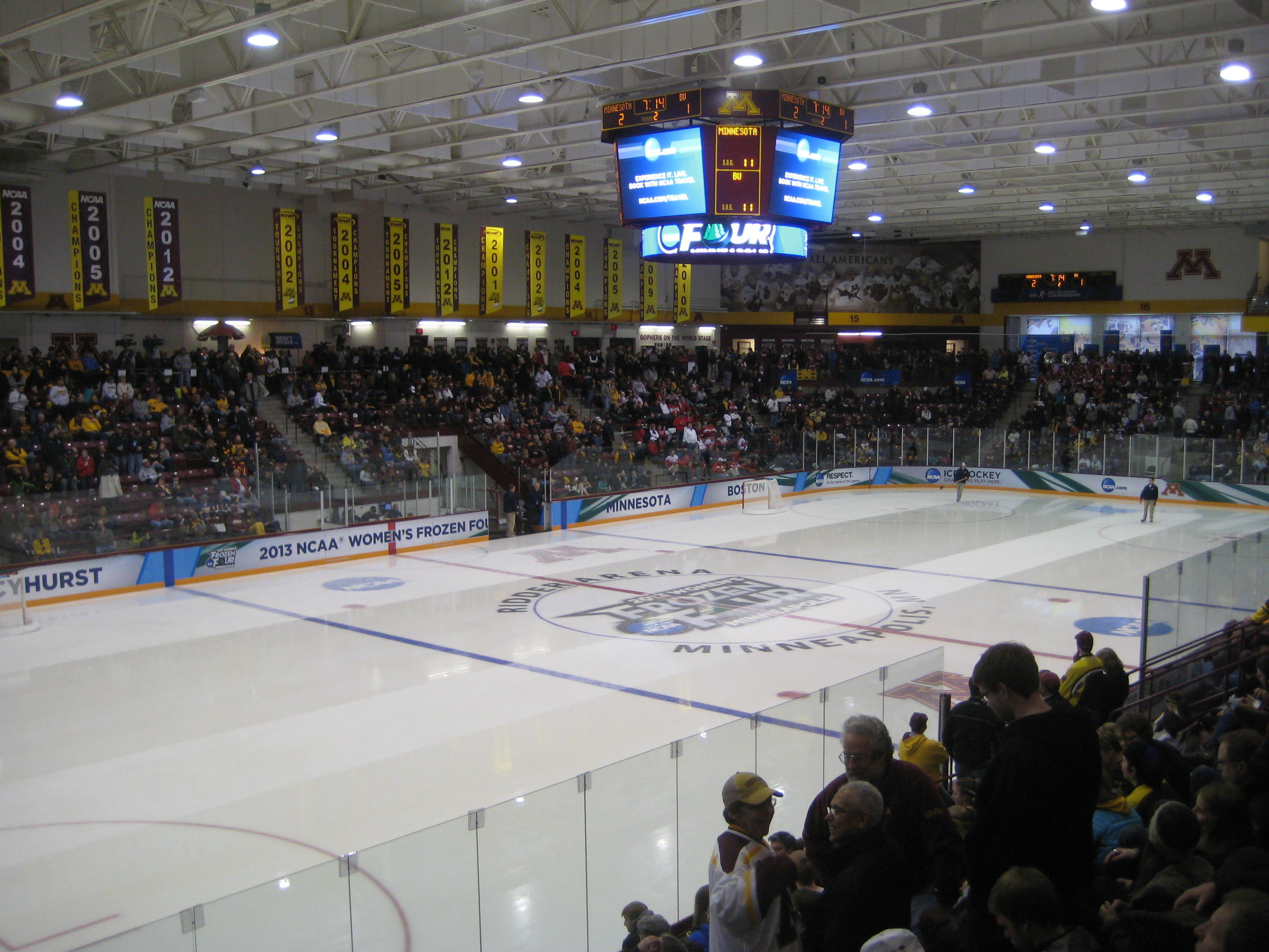 Ridder Arena, in Minneapolis, MN, during the 2013 Women's Frozen Four Final between Minnesota and Boston University.